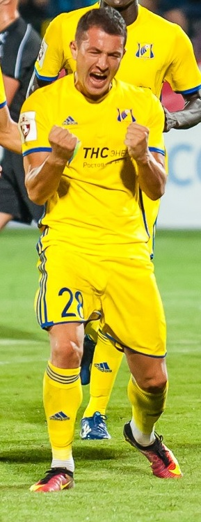 Andrei Prepeliță celebrating a winning goal for FC Rostov against FC Krylia Sovetov Samara.